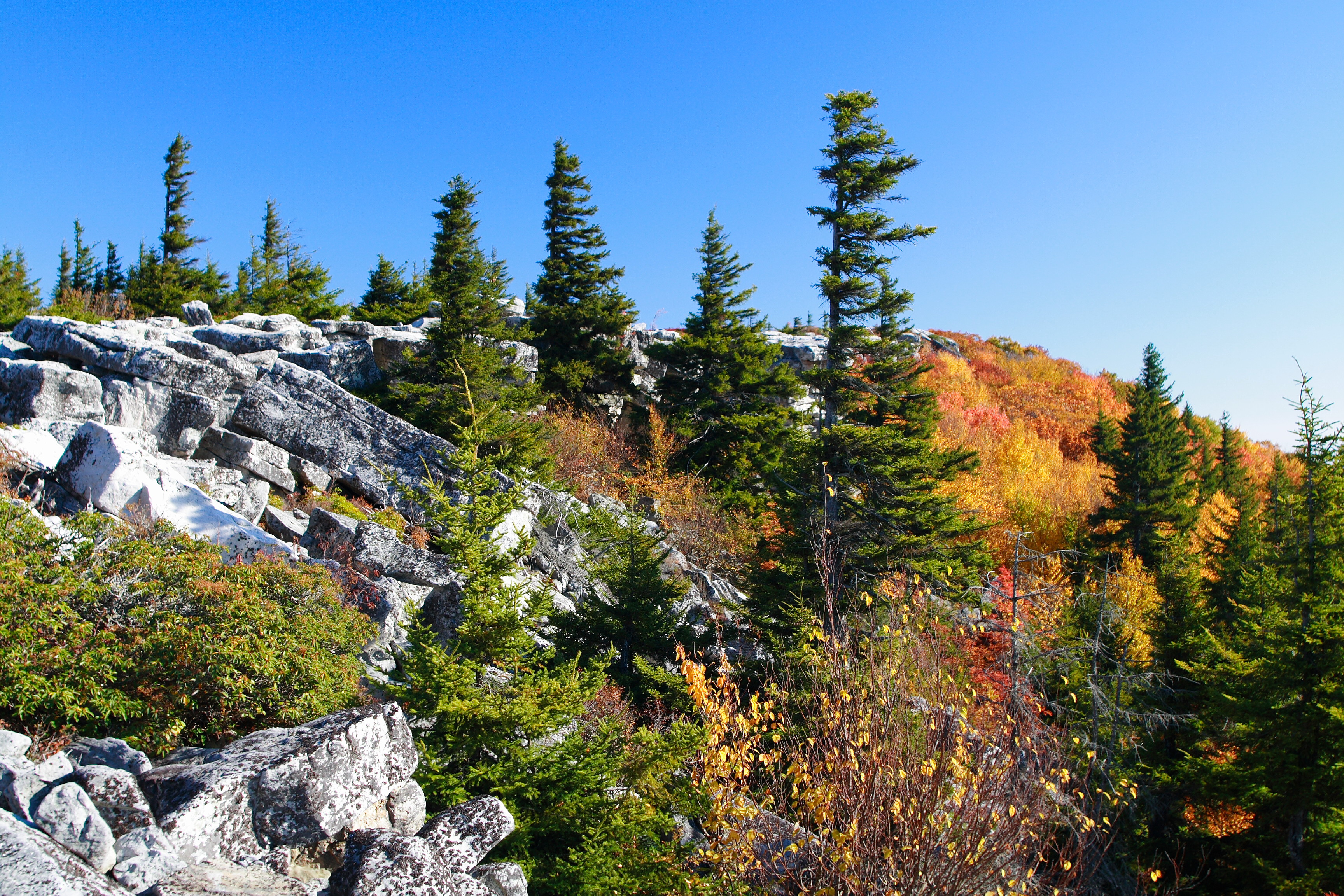 Picea rubens, Bear Rock, West Virginia, USA